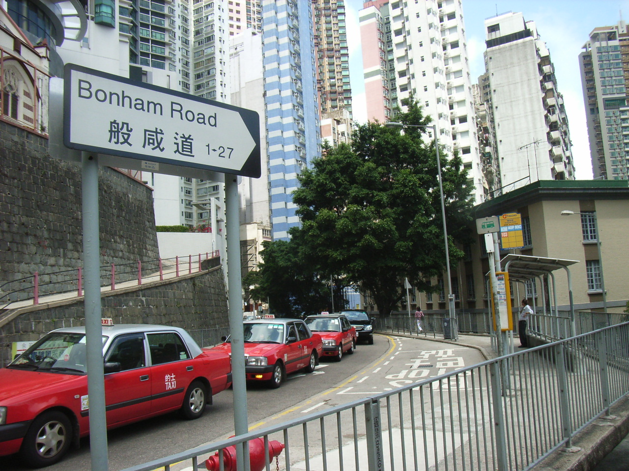 HK Bonham Road, Mid-level Photograph taken by MCLB from Hong Kong